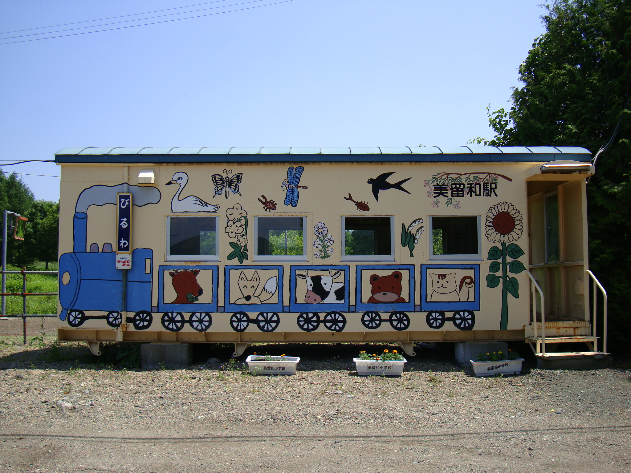 Biruwa Station